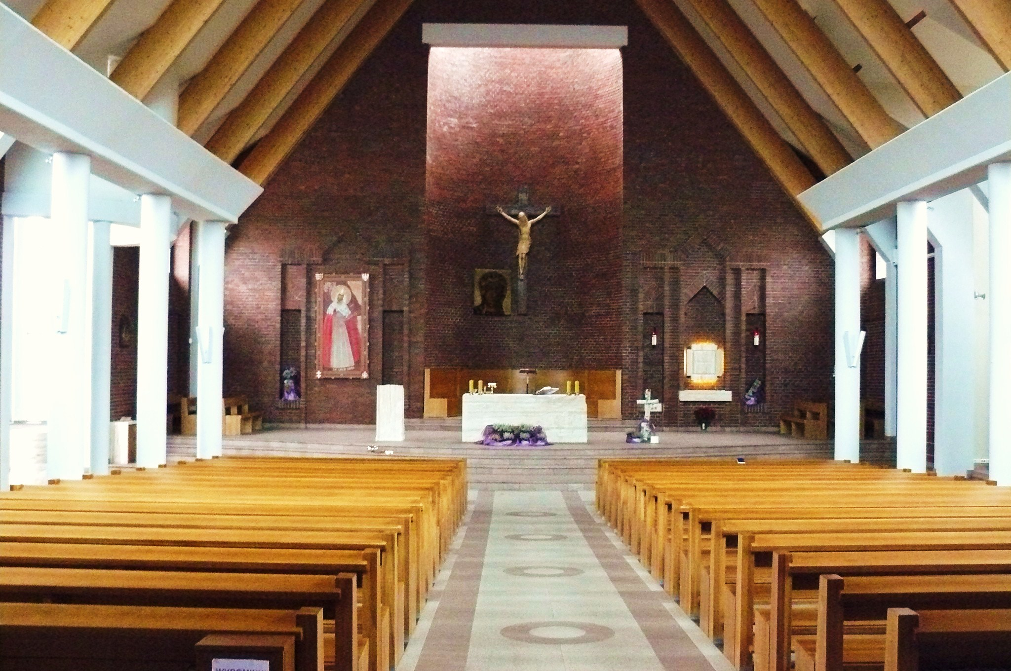 Poznan - Umultowo, Church.